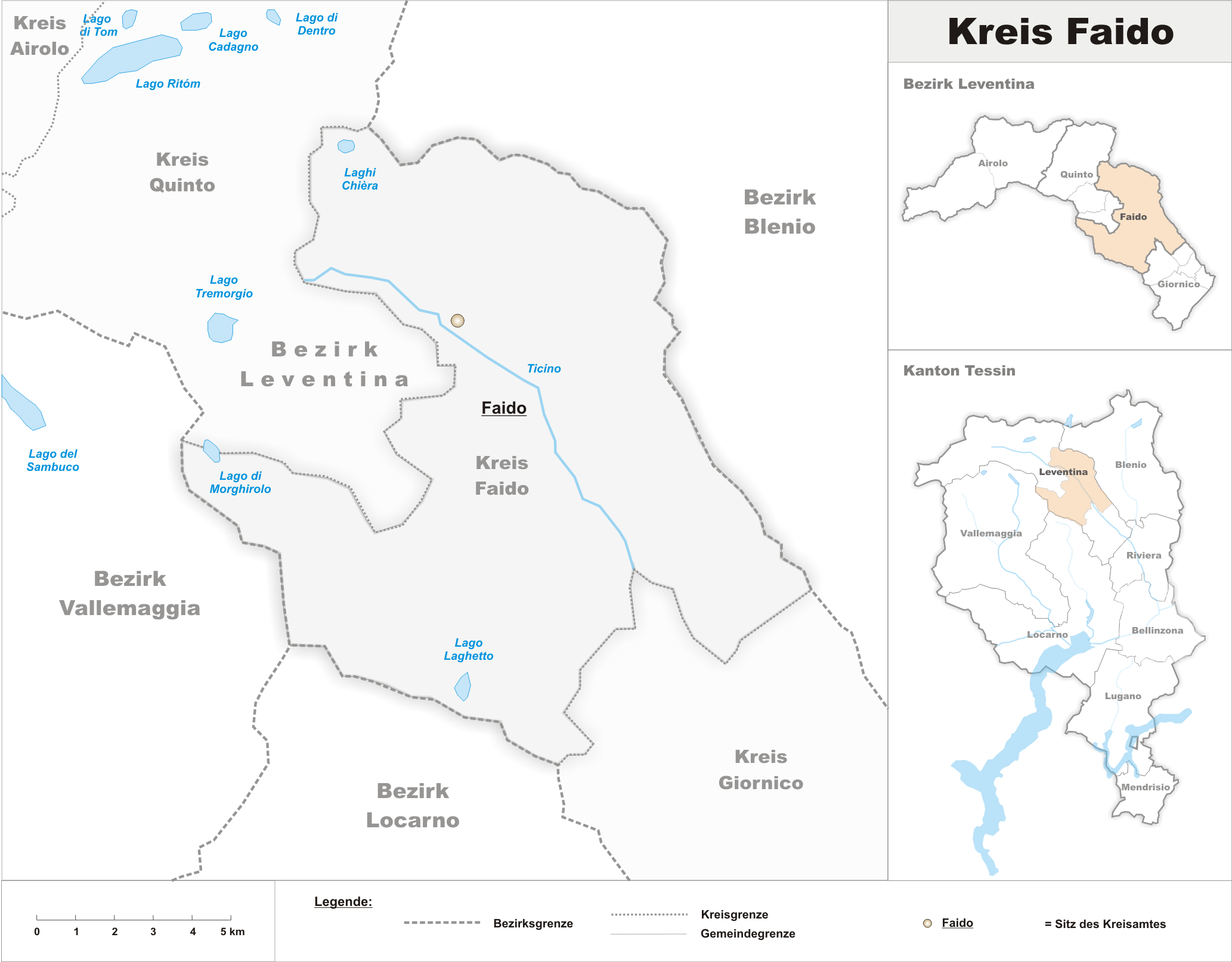 Municipalities in the circle of Faido